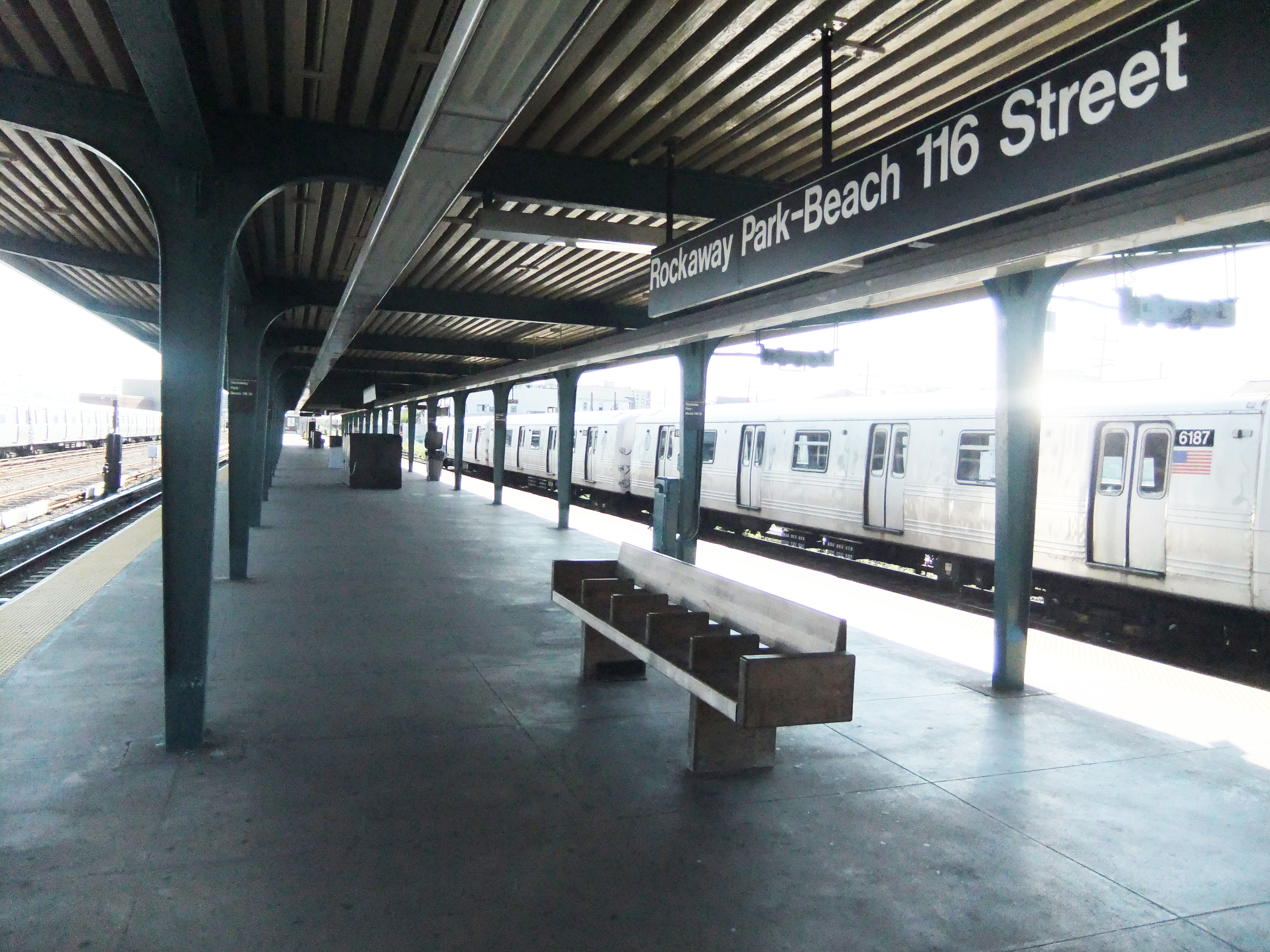 Platform at Rockaway Park - Beach 116th Street.